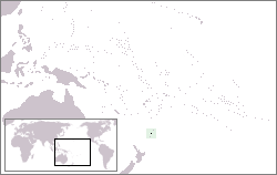 Location of Macauley Island, Kermadec Islands in the Pacific Ocean